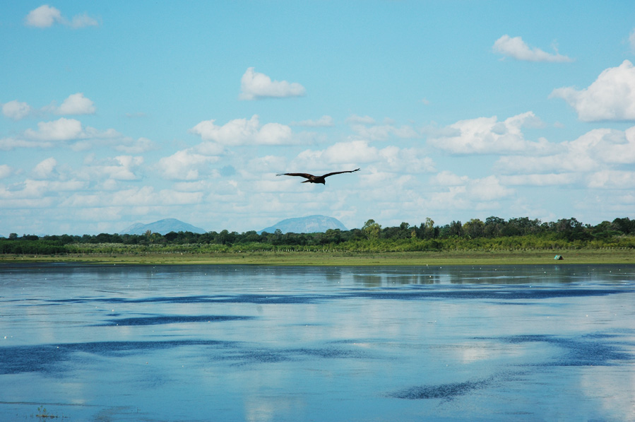 Taken by Flickr User: happyhorizons Uploaded to wiki by user:nikkul